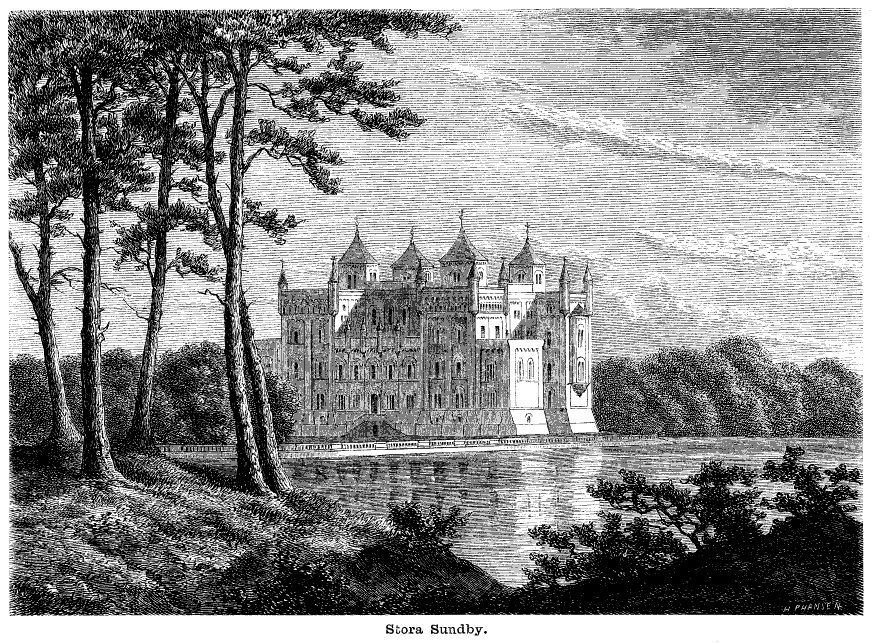 Stora Sundby castle in Södermanland, Sweden, depicted in Svenska Familj-Journalen in 1872.